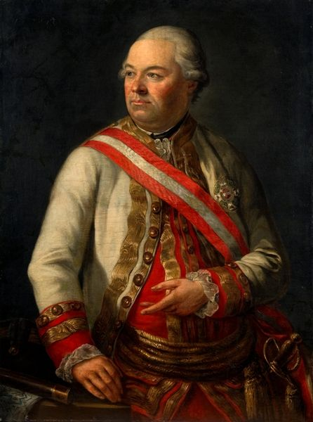 Portrait of András Hadik (1711-1790), misidentified with his son Count Károly József Hadik (1756-1800).